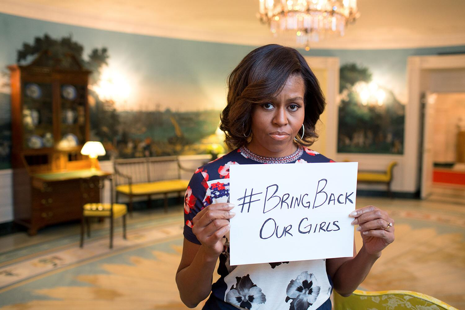 First Lady Michelle Obama holding a sign with the hashtag "#bringbackourgirls" in support of the 2014 Chibok kidnapping. Posted to the FLOTUS Twitter account on May 7, 2014.